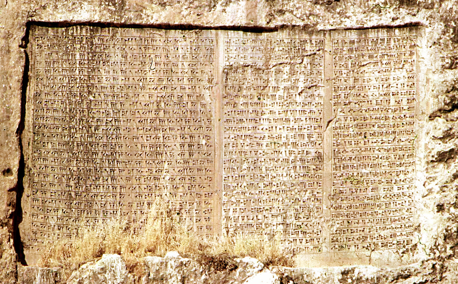 Inscription of Xerxes, Van, Turkey It is a trilingual inscription, written in Old Persian, Babylonian and Elamite (from left to right). See [1].